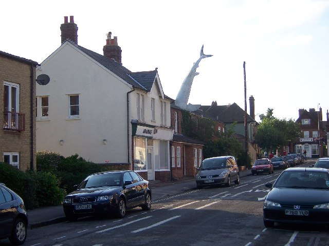 New High Street, Headington. The famous 'shark in the roof' - it's real!!